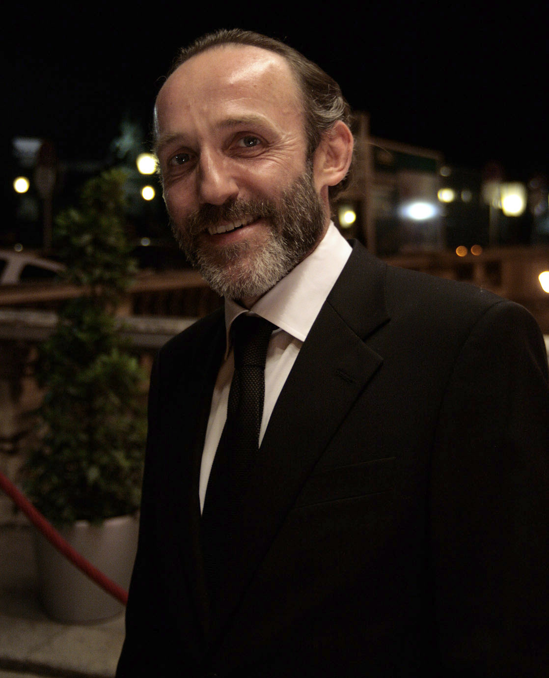 Karl Markovics at the Romy TV awards (Hofburg Imperial Palace in Vienna)